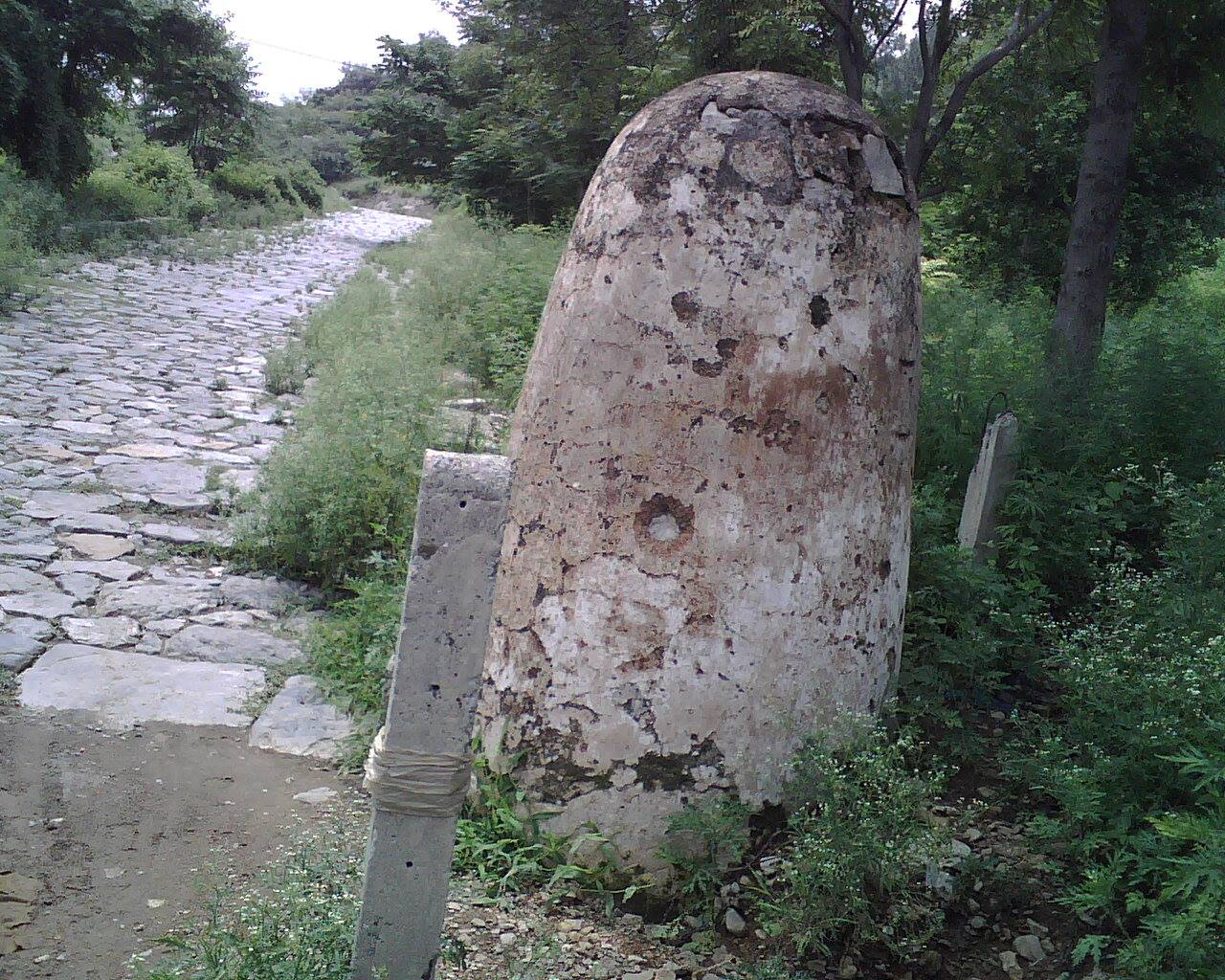 A reserved portion of Grand Trunk Road, near Taxila (Margalla Pass). Build up in 16th Century by Afghan Emperor Sher Shah Suri.